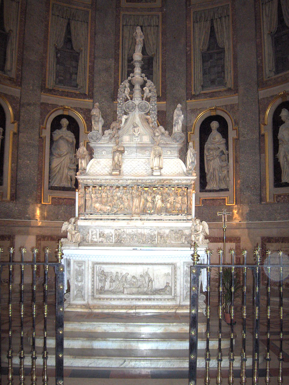 Shrine of Saint Dominic, Basilica of Saint Dominic, Bologna, Italy